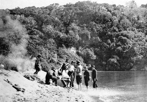 Members of the Nimrod Expedition (1907-1909) on Stewart Island (New Zealand) after the return from Antarctica